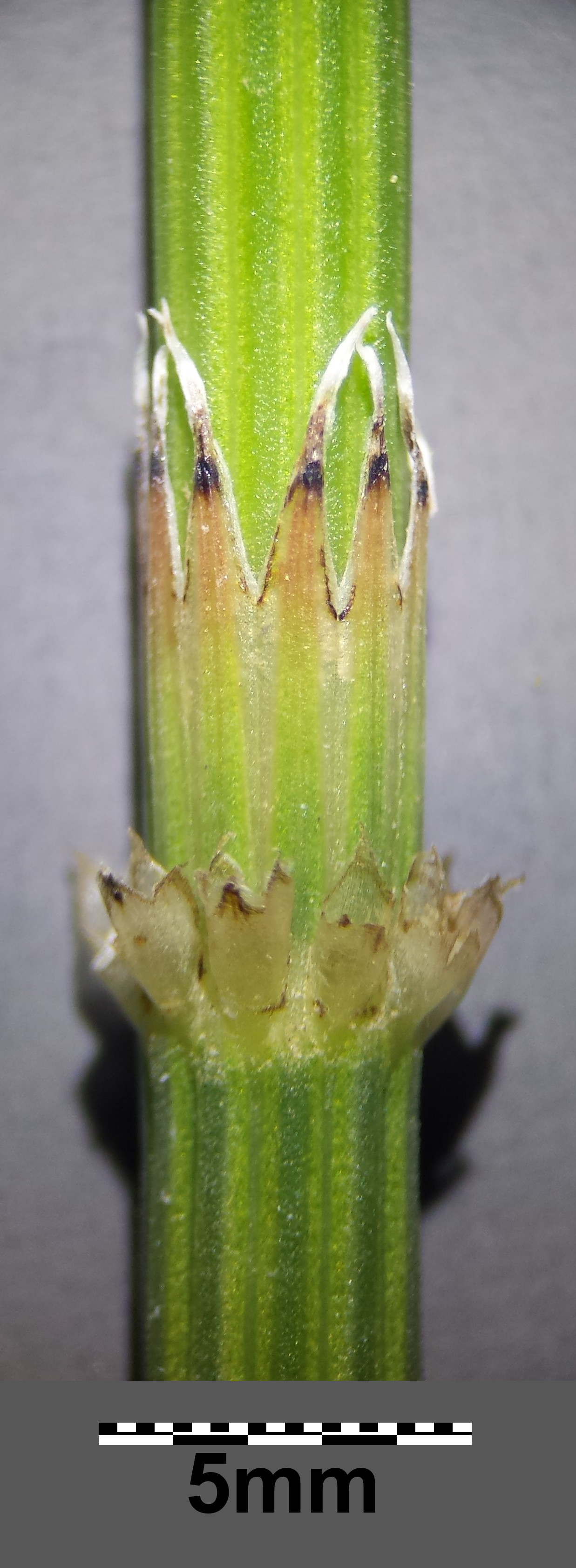 Stem with sheath and teeth (sterile stem) Taxonym: Equisetum arvense subsp. arvense ss Fischer et al. EfÖLS 2008 ISBN 978-3-85474-187-9 Location: near Niederhollabrunn, district Korneuburg, Lower Austria - ca. 350 m a.s.l. Habitat: field